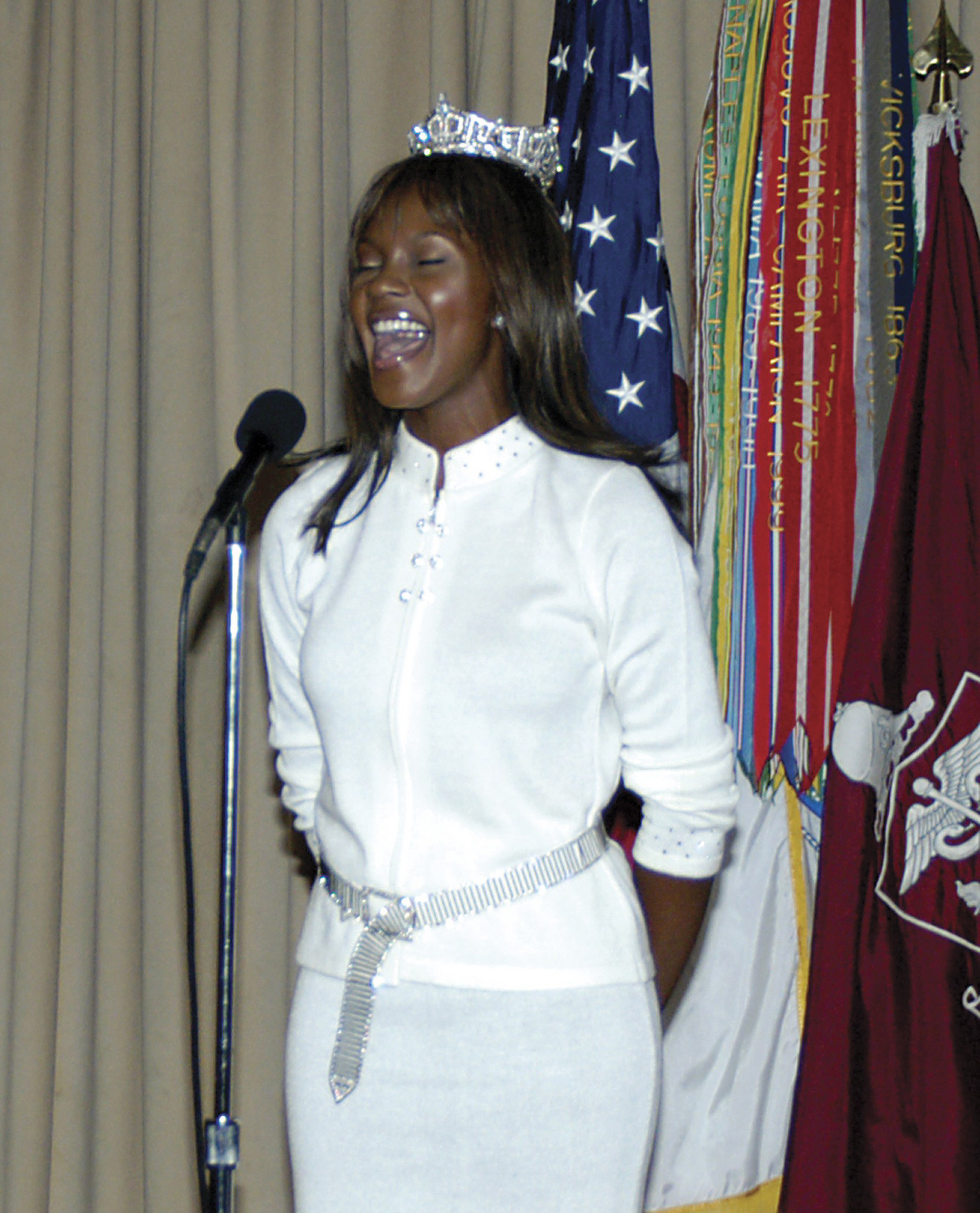 Reigning Miss America Ericka Dunlap kicks off the luncheon at Walter Reed by singing the National Anthem.